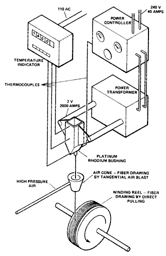 Original caption: Single fiber drawing equipment for basalt fiber production. Category:Advanced Automation for Space Missions